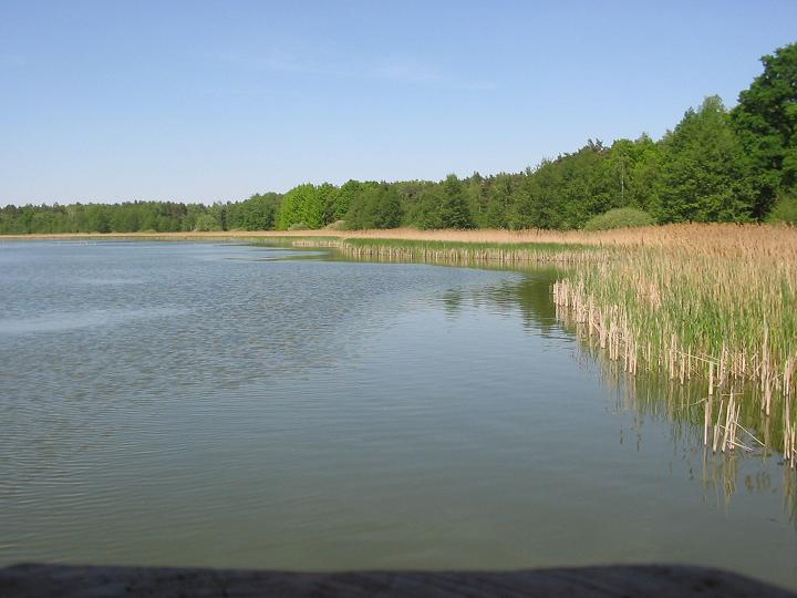 The Riebener See is a protected lake in the nature park Nuthe-Nieplitz. He is situated nearby the village Rieben, part of the town Beelitz in the district Teltow-Fläming, state Brandenburg, Germany.